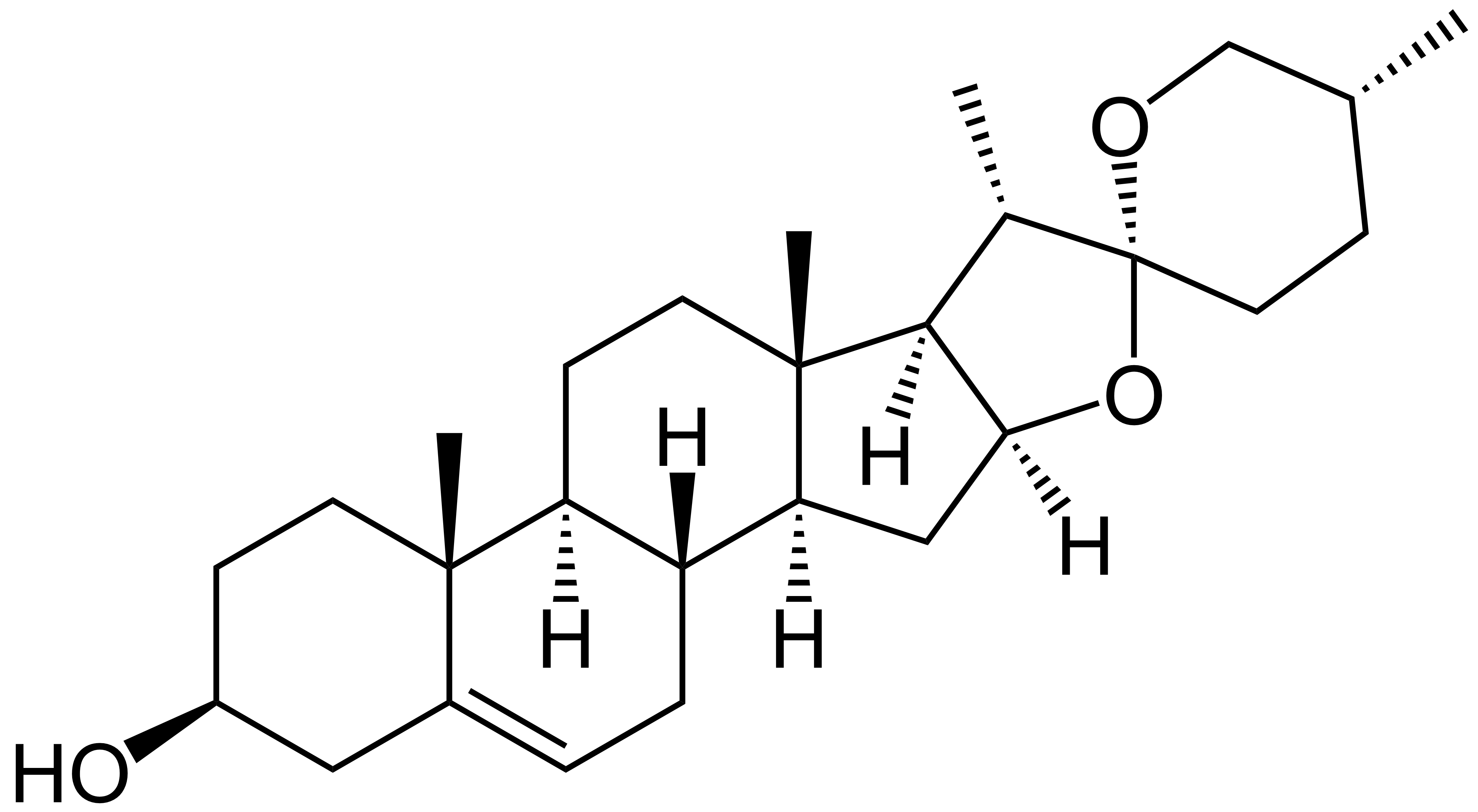 The chemical structure of diosgenin.